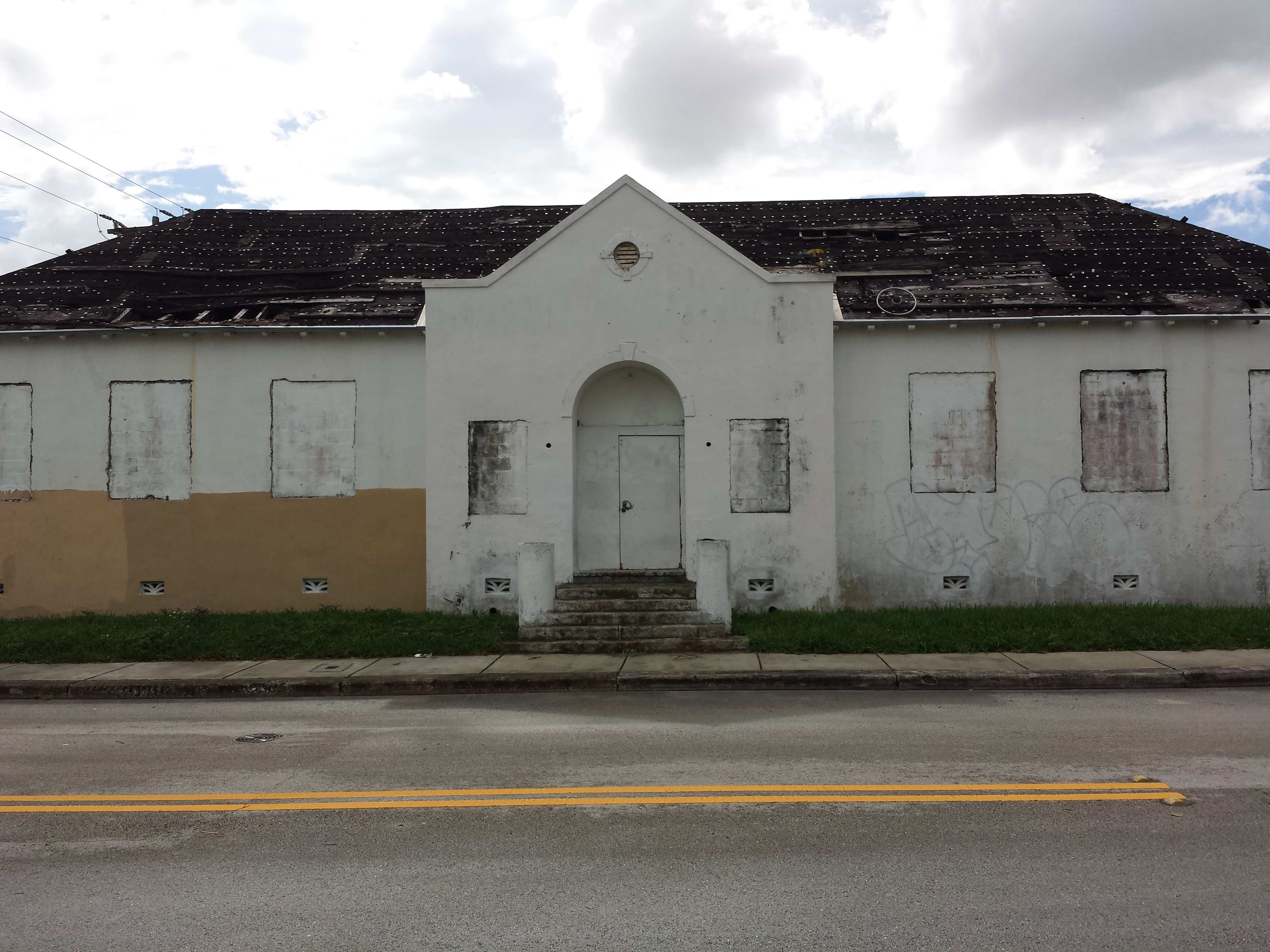 Overtown: Dorsey Memorial Library, 100 NW 17th Street, Miami, FL